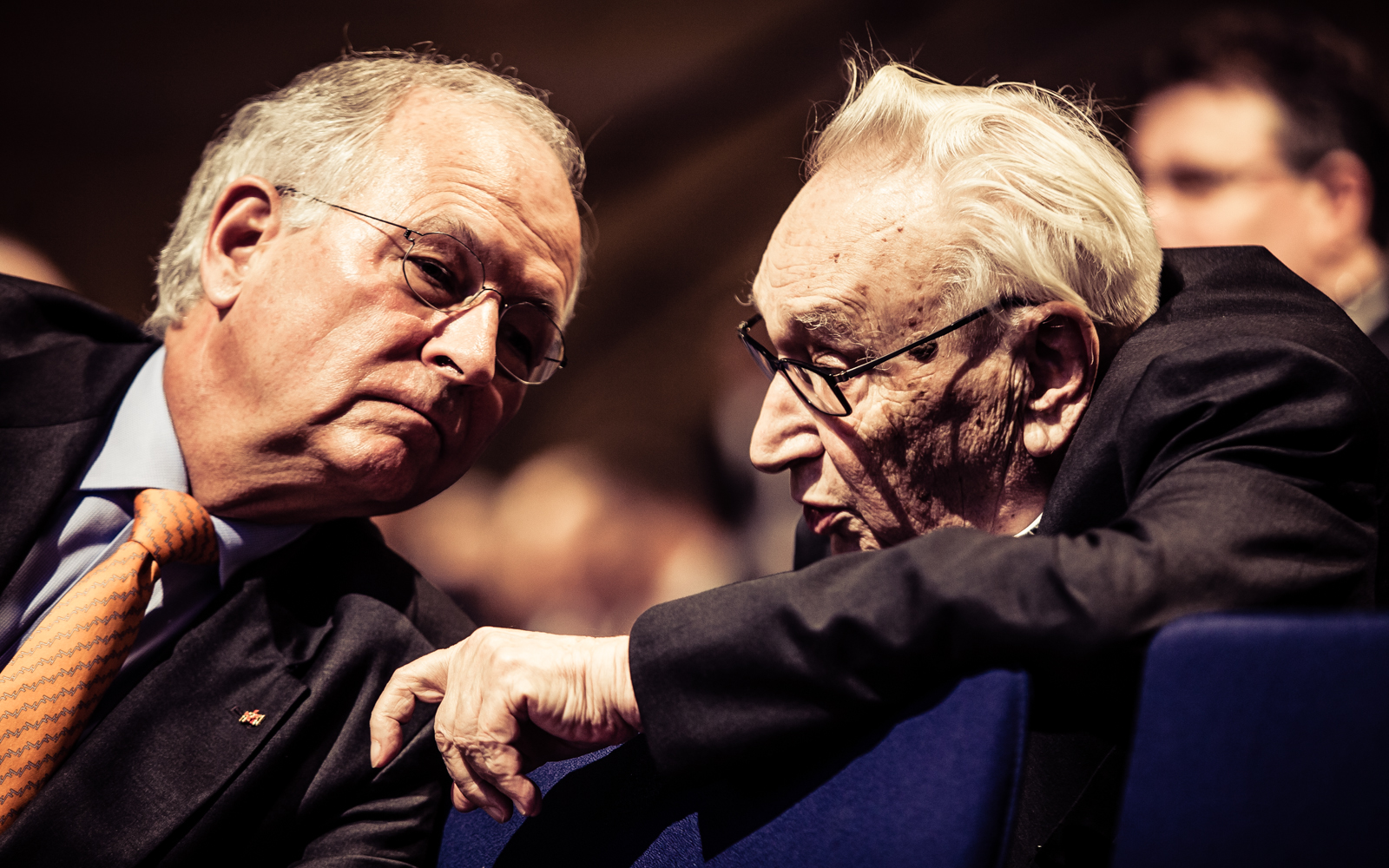 50th Munich Security Conference 2014: Wolfgang Ischinger and Egon Bahr: Wolfgang Ischinger and Egon Bahr (Former Federal Minister for Special Affairs, Federal Republic of Germany).